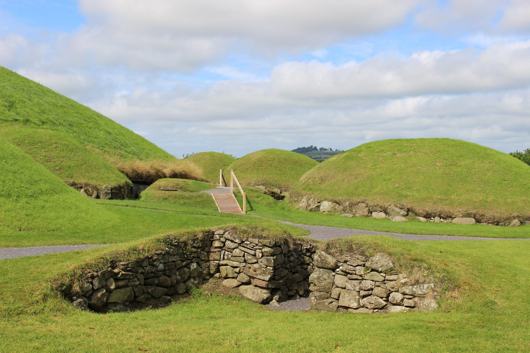 Knowth Passage Tomb